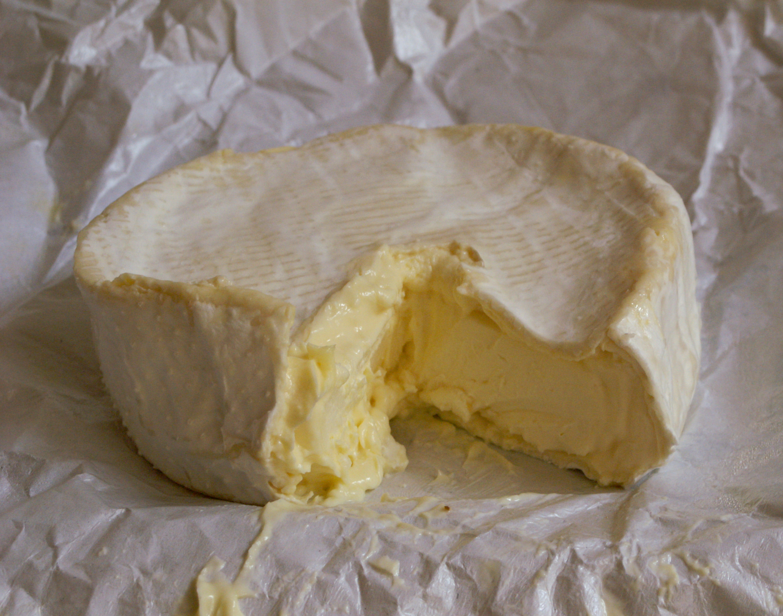 Brillat Savarin, Cheese (France)